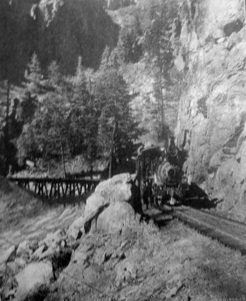 Photo of one of the line's trains in Phantom Canyon from a booklet, "Thru the Canyon of Phantoms". The booklet describes the route of the Florence and Cripple Creek Railroad. The line was accepting passenger service at the time, as it details how the line connected with the Rio Grande and how to get tickets.